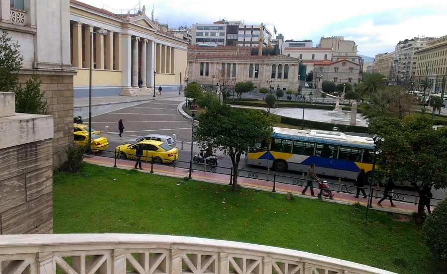 trilogia